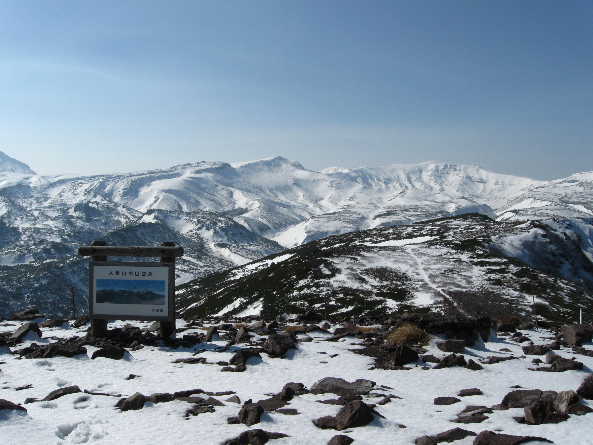 View of the Daisetsuzan range seen from the summit of Kurodake, looking west, towards Mamiyadake.